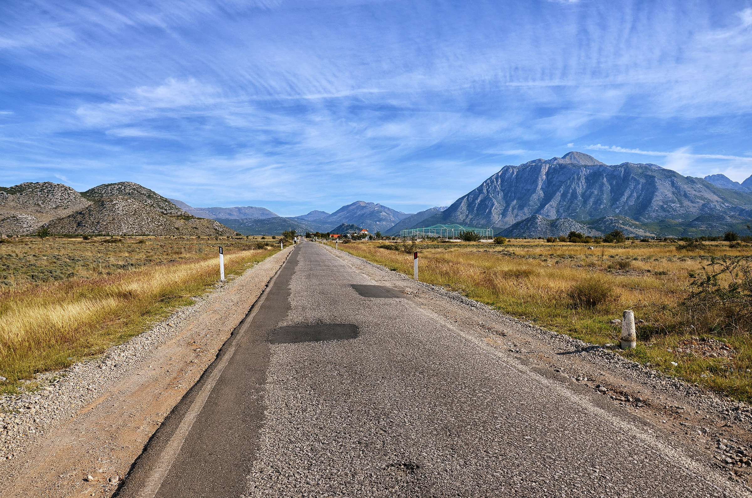 The road SH21 near Koplik, Albania